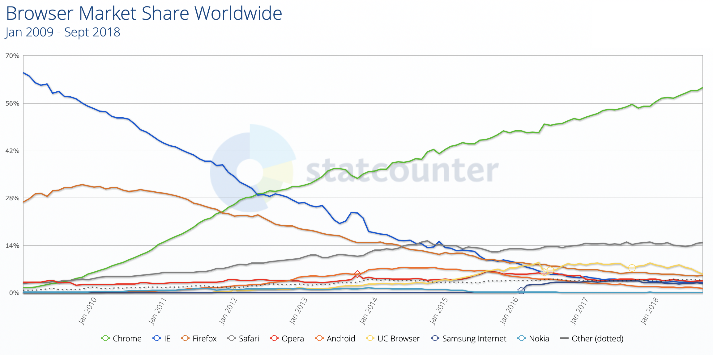 Market share of web browsers, since 2009, according to Statcounter